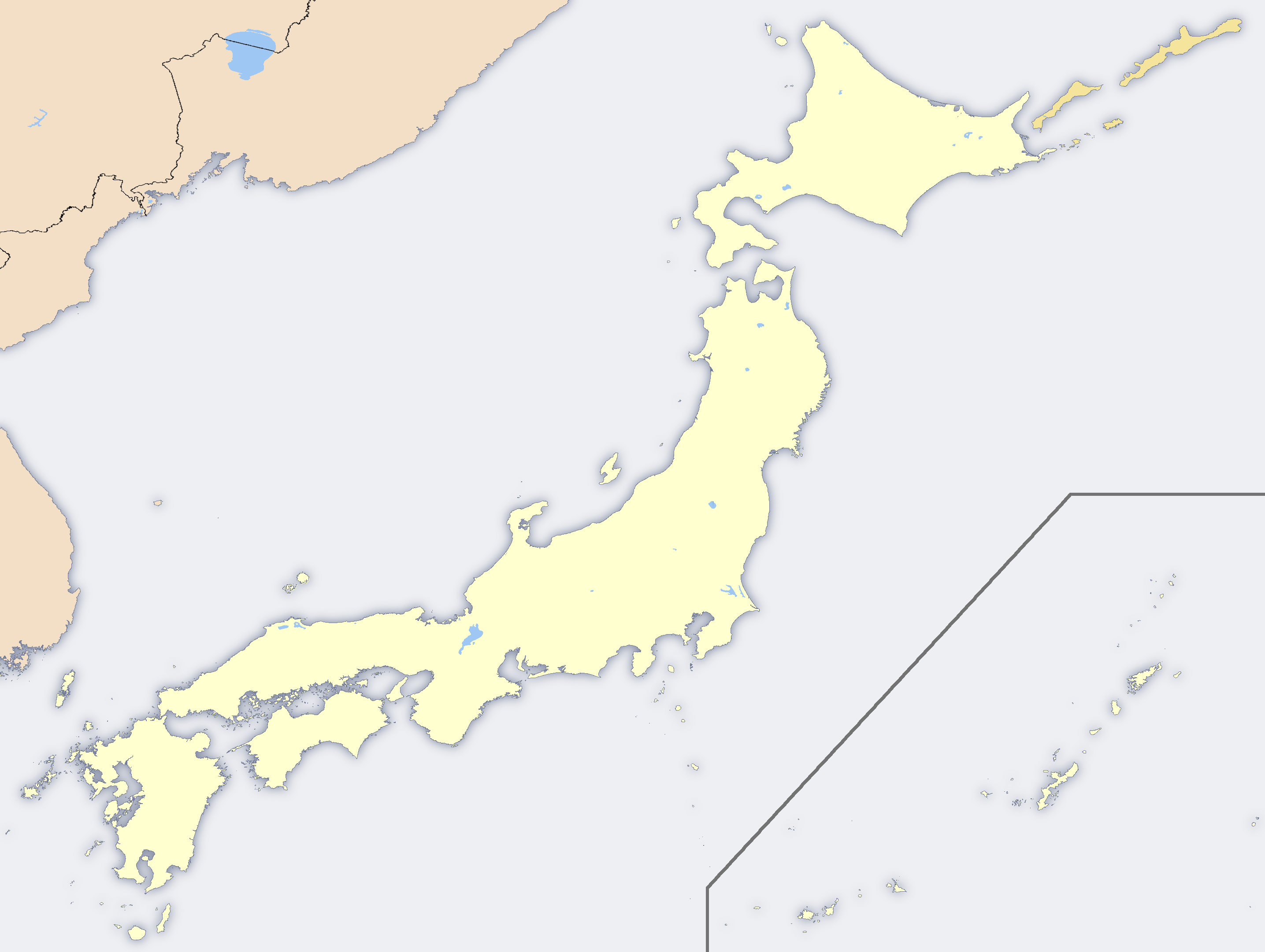 japan equirectangular projection, with the addition of the China-North Korea border and the Russia-North Korea border.